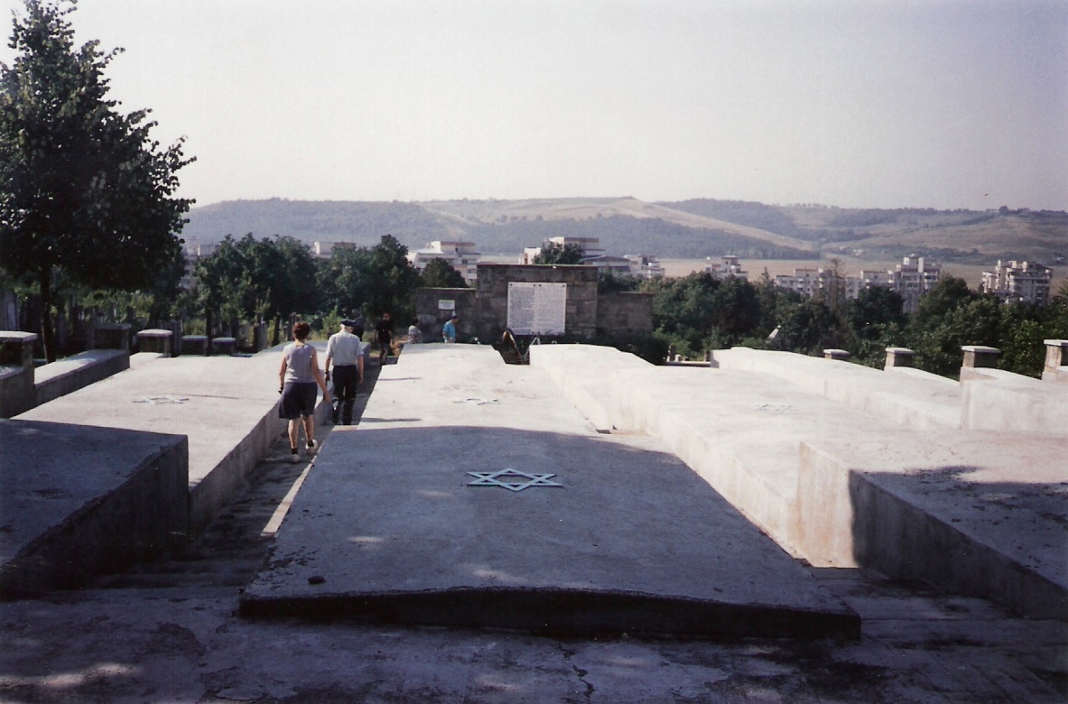 mass grave for victims of iasi pogrome